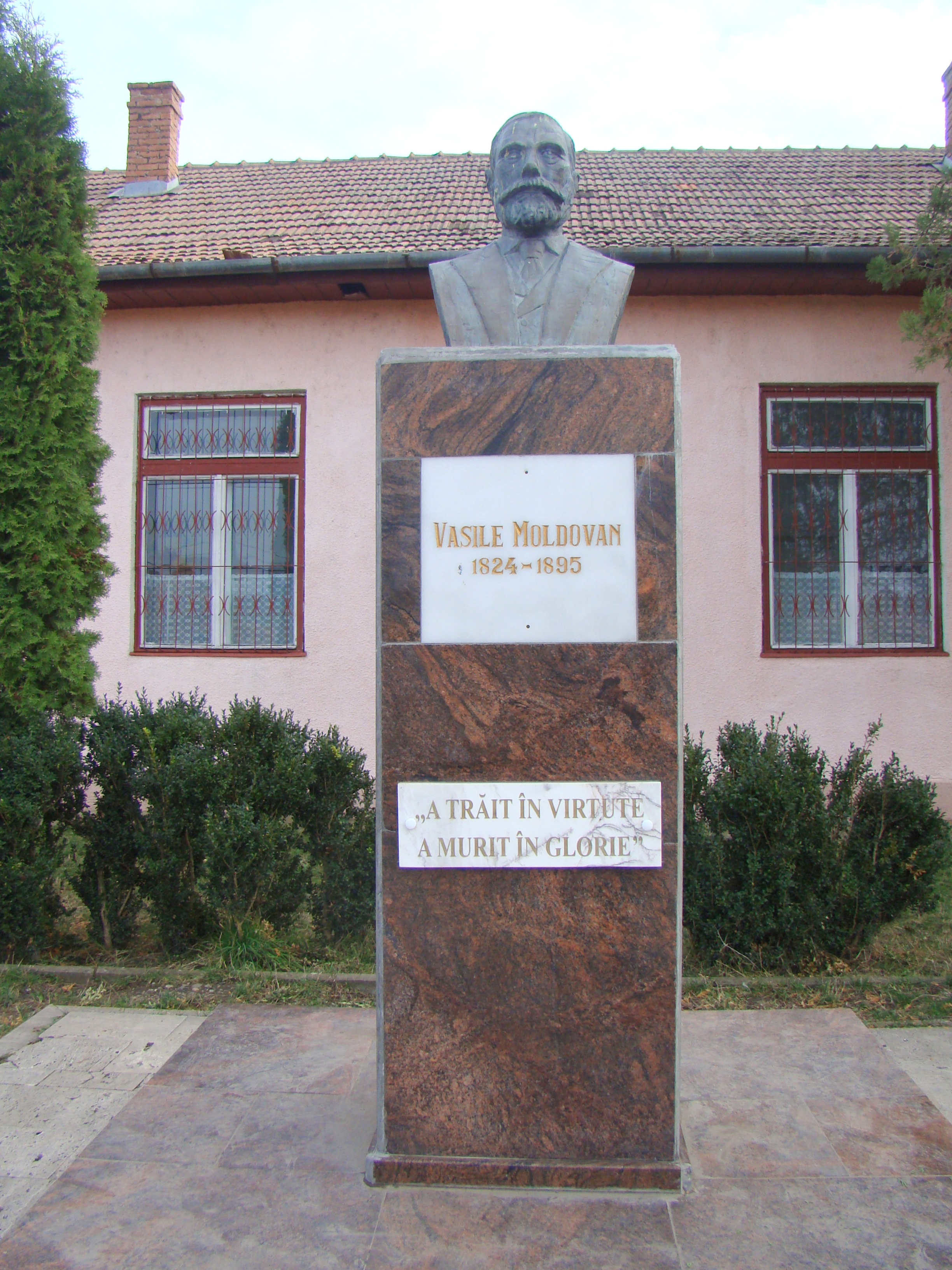 Bust of Vasile Moldovan in Chirileu, Mureş county, Romania